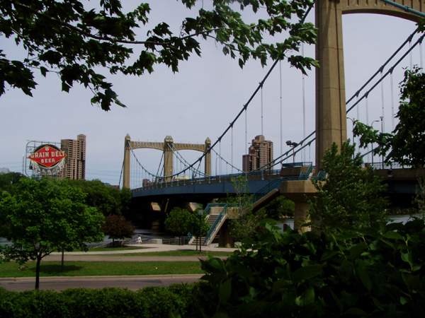 Taken from the Fed Reserve side along the Mississippi river in 2006.